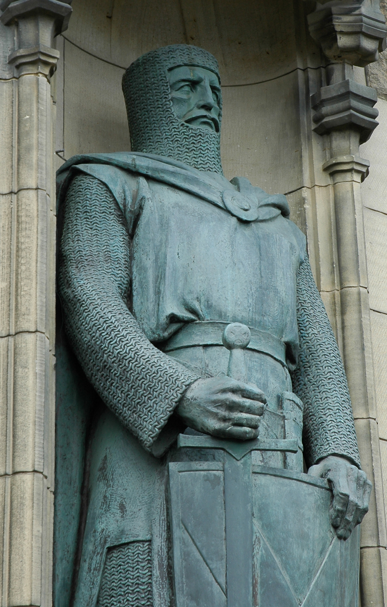 Braveheart, statue at Edinburgh Castle, depicting William Wallace